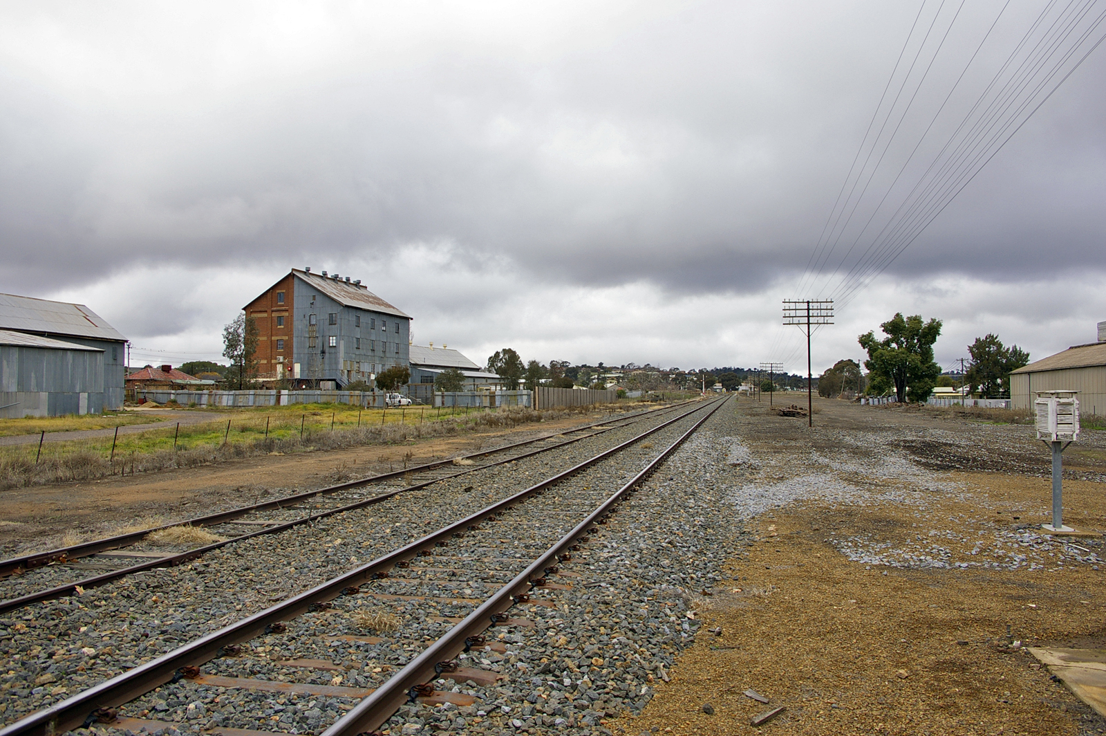 Hay railway lineJunee (Looking to the town centre).